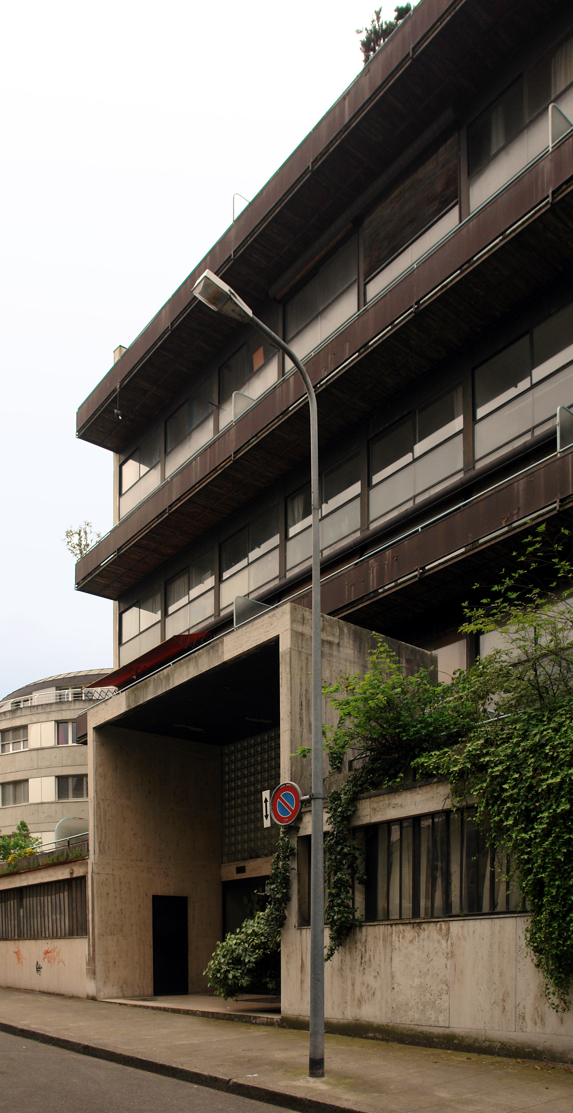 Maison Clarté in Geneva, Switzerland, Architect: Le Corbusier, Year: 1930-32, Main Facade and Entrance